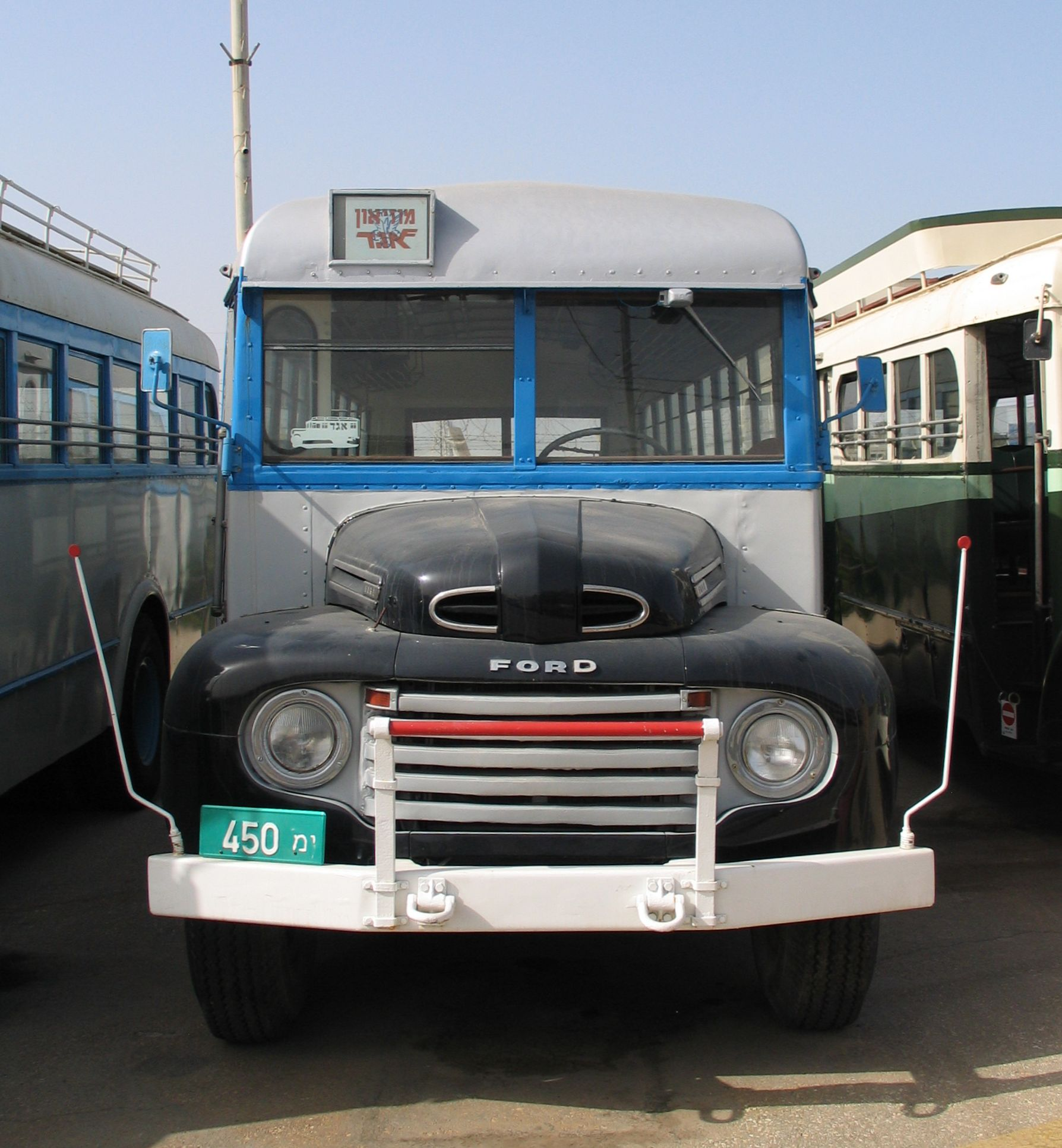 A bus (Ford chassis, body produced by Magen Chetwood, Israel) in the Egged Museum, Holon, Israel.